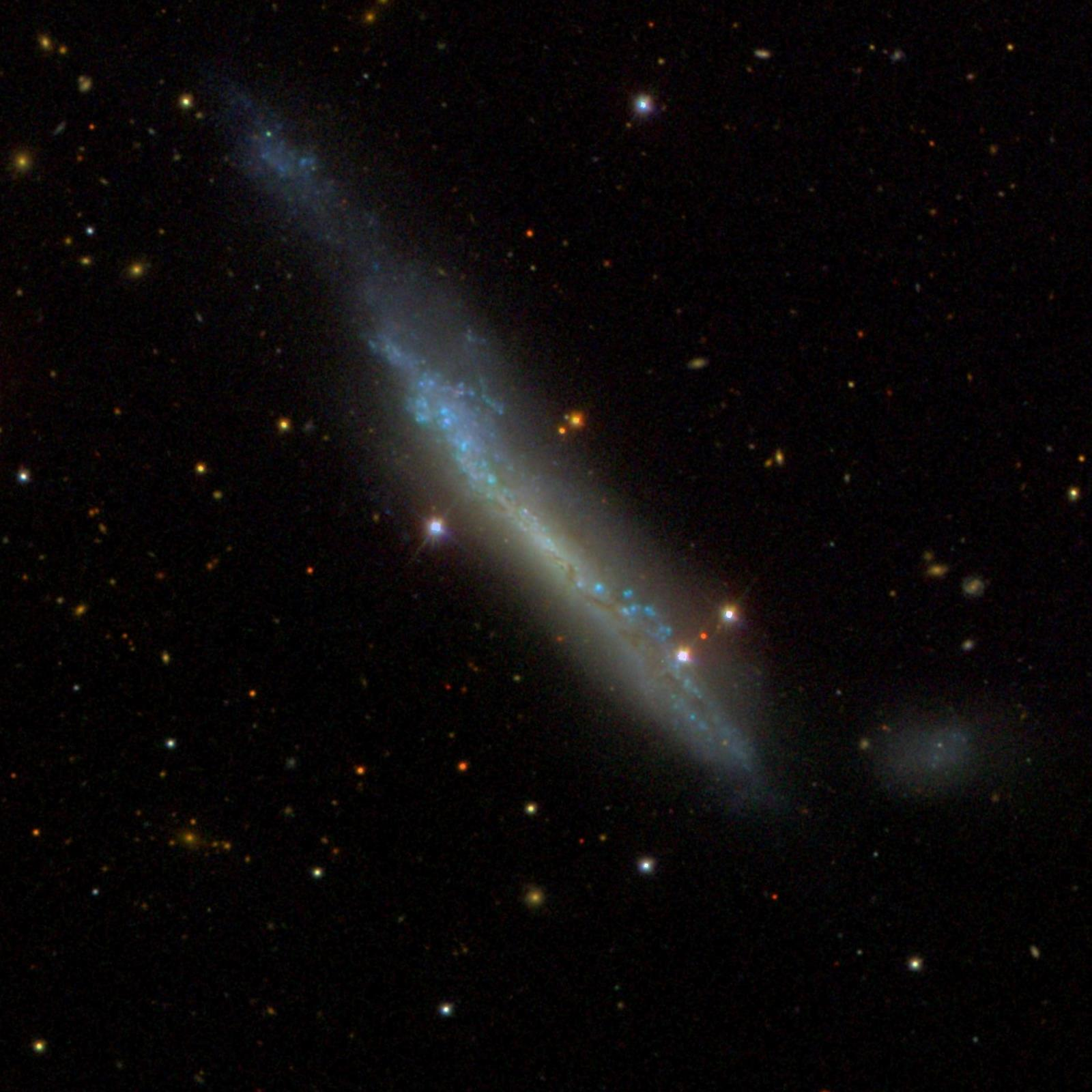 Angle of view: 8' × 8' (0.3" per pixel), north is up.